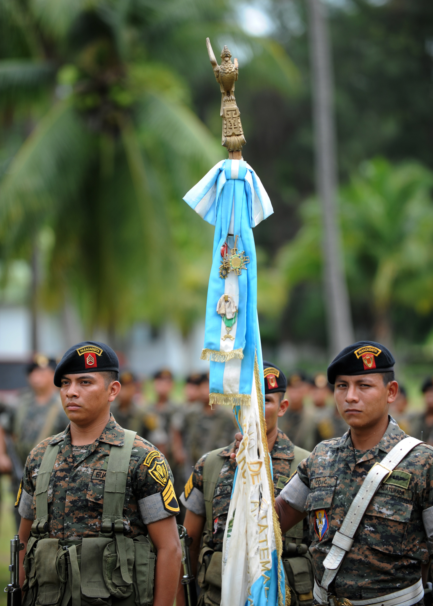 PUERTO SAN JOSE, Guatemala (June 30, 2011) Members of the Guatemalan army march during a pass and review ceremony welcoming the Military Sealift Command hospital ship USNS Comfort (T-AH 20) to Puerto San Jose, Guatemala, during Continuing Promise 2011. Continuing Promise is a five-month humanitarian assistance mission to the Caribbean, Central and South America. (U.S. Navy photo by Mass Communication Specialist 2nd Class Eric C. Tretter/Released)